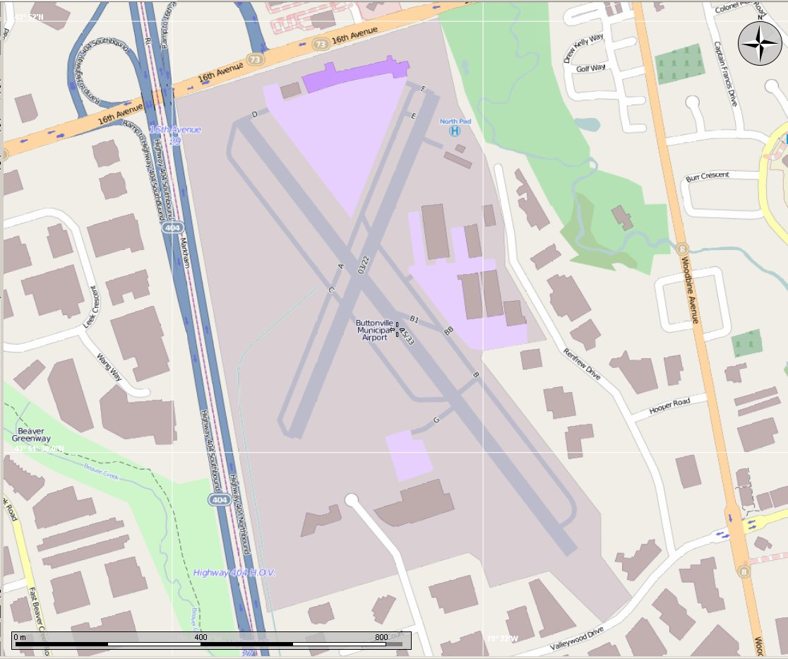 Open Street Map of the Buttonville Municipal Airport in Markham, Ontario. The airport is sandwiched between Highway 404 to the west and 16th Avenue to the north.